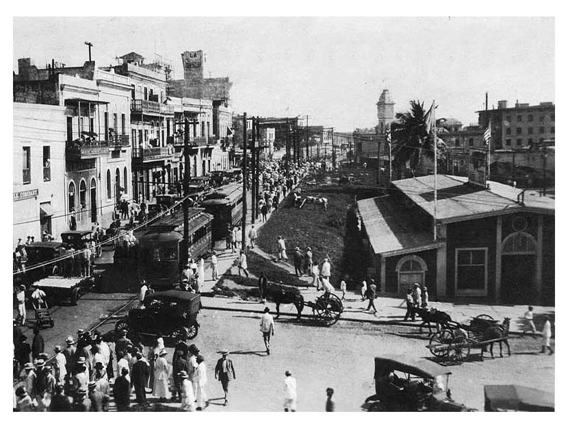 San Juan Tramway in Old San Juan depot, today Parking Doña Fela, candidate for implosion for park creation, once walkable city on course!!